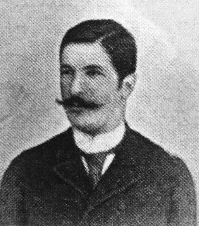 Georgios Dyovouniotis (1868-1942): Greek lawyer and university professor